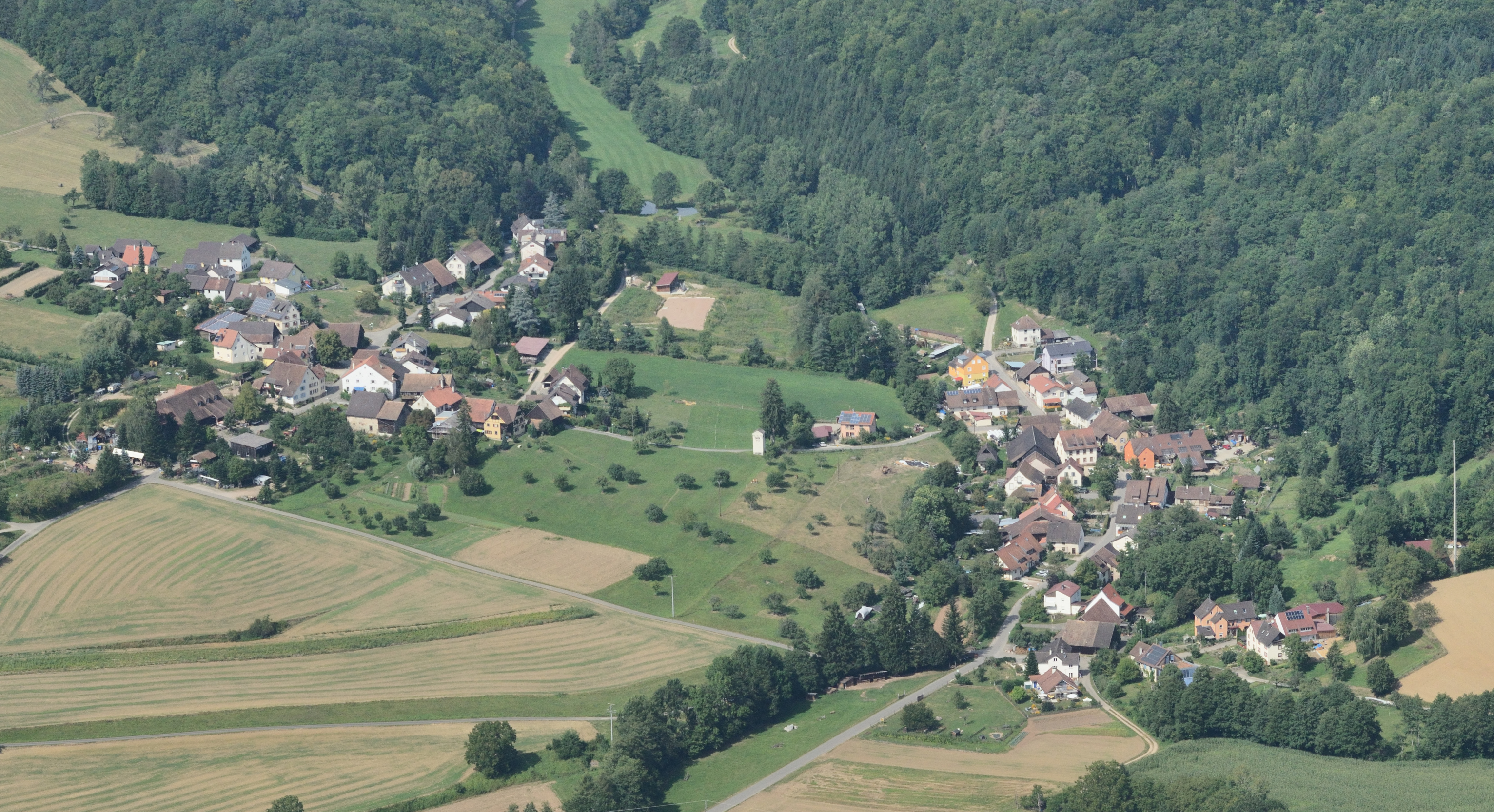 aerial view of Egerten and Nebenau